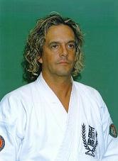 José Santana Shihan (7th Dan), highest Seigokan graduate in Europe. Photo taken in Portugal (2007).